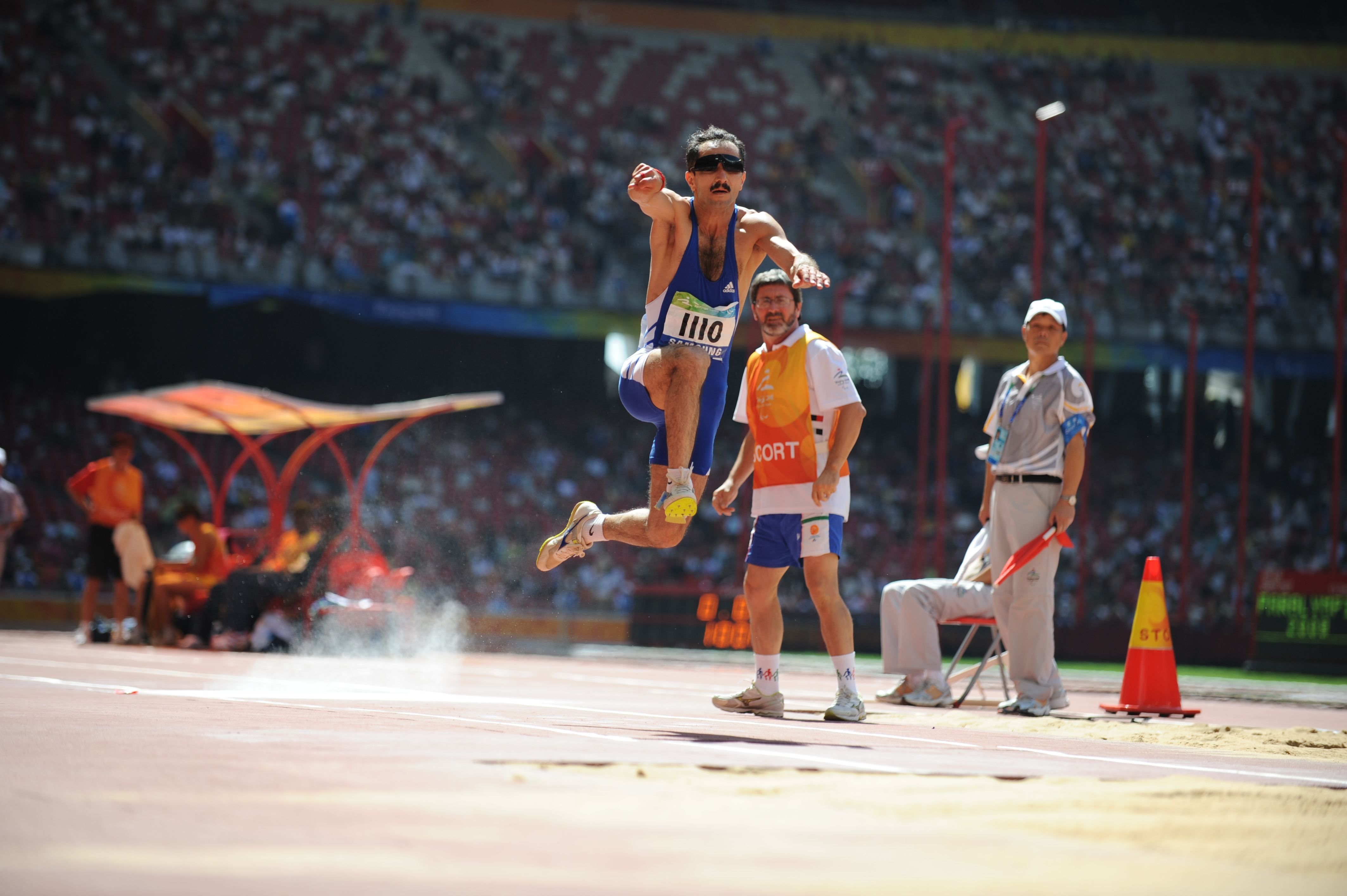 Zeynidin Bilalov at 2008 Paralympics